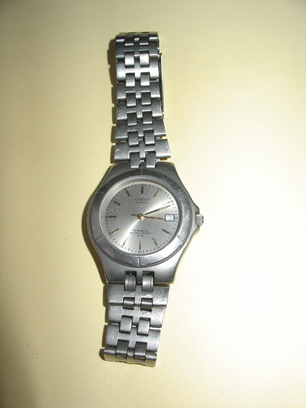 Ti - covered watches